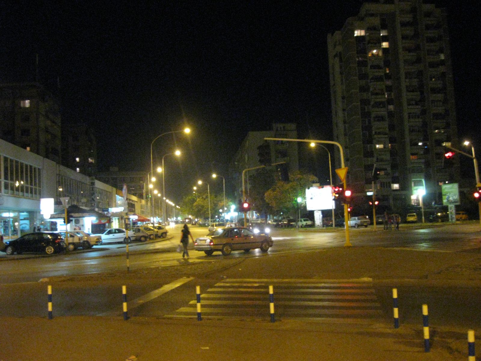 Downtown